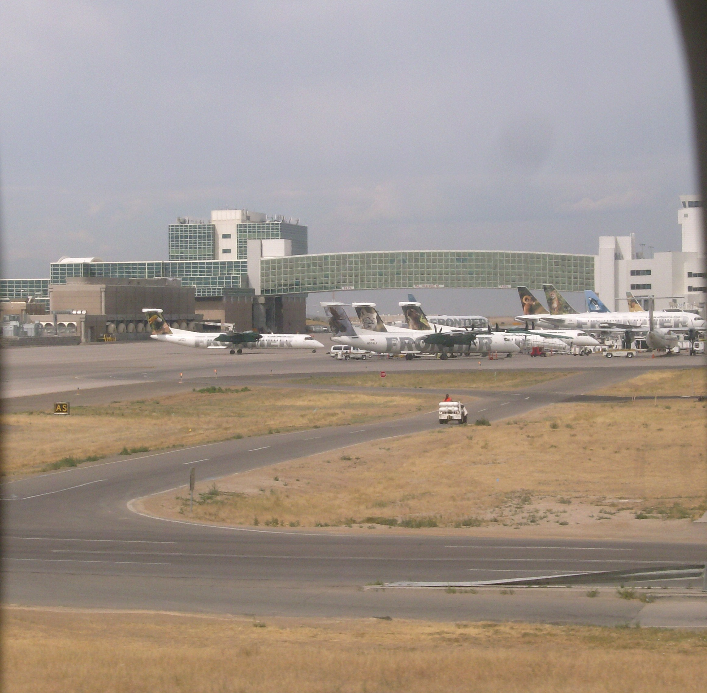 frontierdenpedbridge.JPG